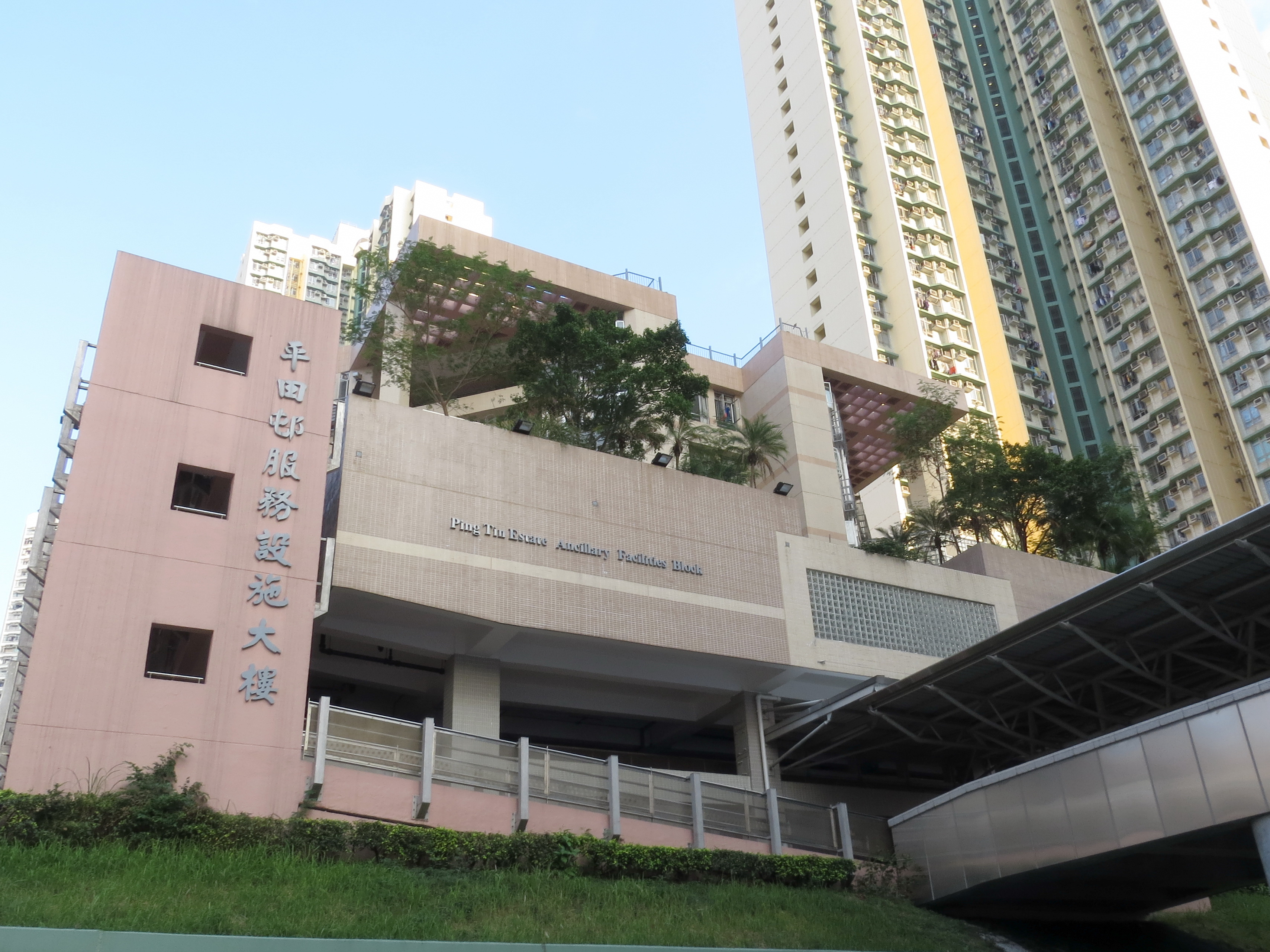 Ping Tin Estate Ancillary Facilities Block, Lam Tin, Kowloon, Hong Kong.